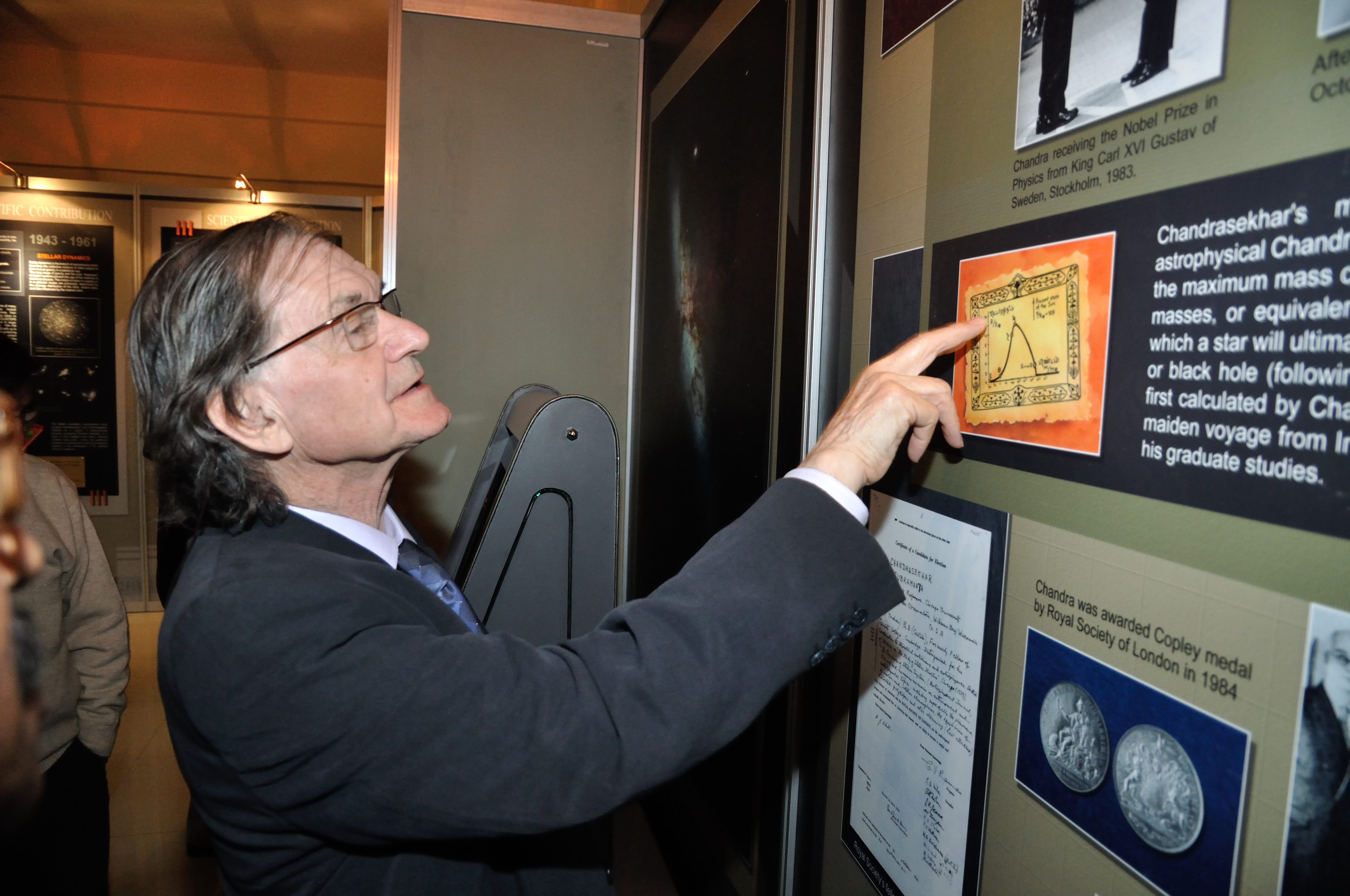 Photographed in Kolkata